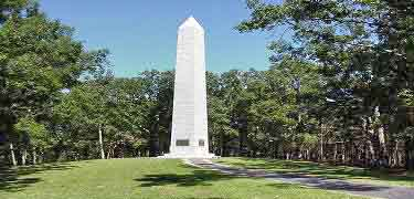 Kings Mountain Monument, South Carolina KIMO_US%20Monument3_edited-1